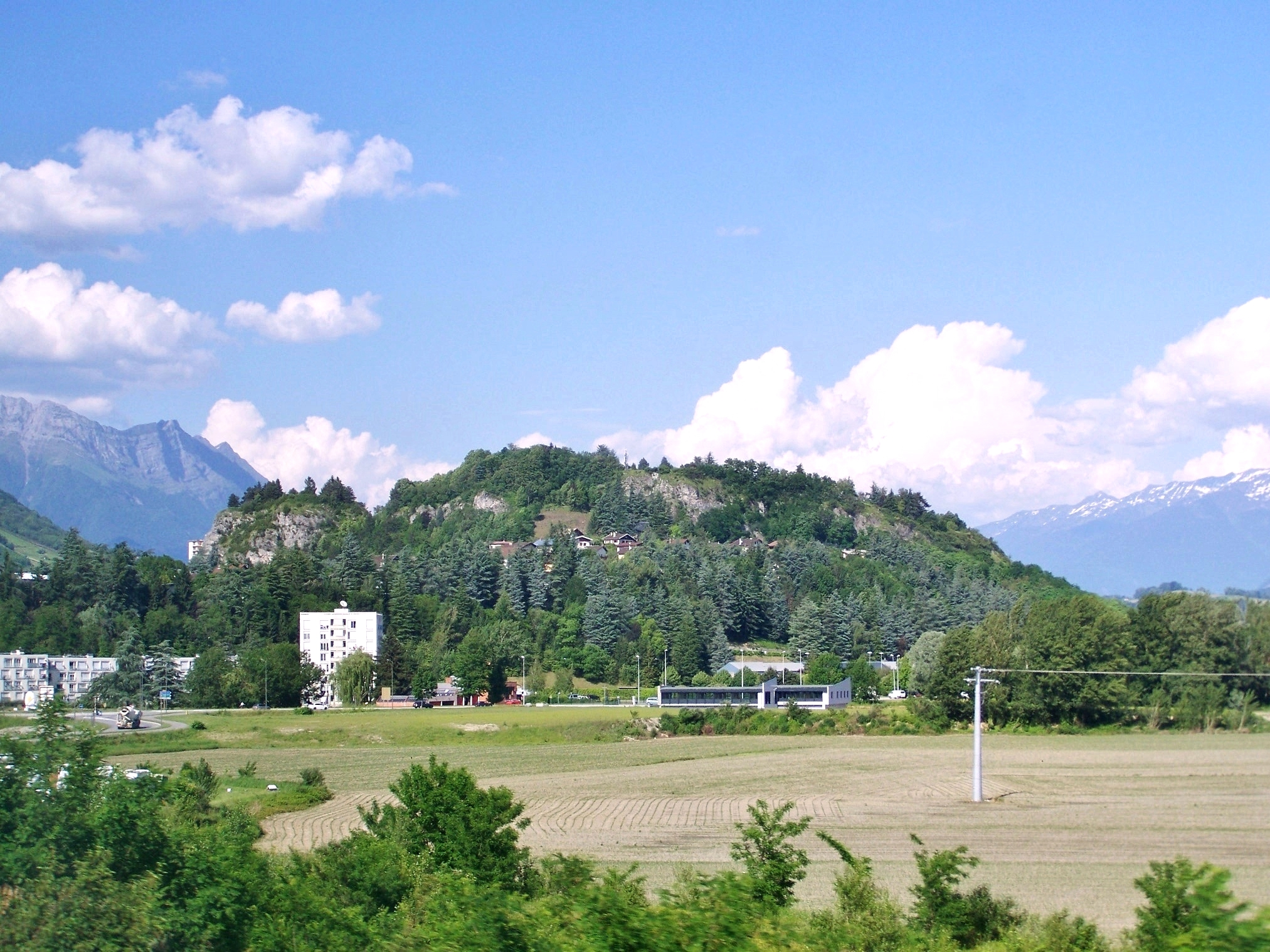 Sight of Rocher de Montmélian rock (glacial cross cliff), near Chambéry in Savoie, France.